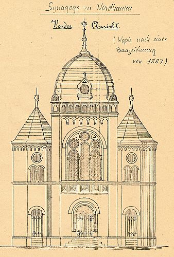 Nordhausen (Thuringia - Germany) synagogue drawing